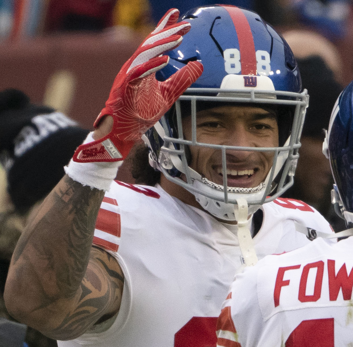 Evan Engram and Bennie Fowler III of the New York Giants at FedExField during a 2018 game